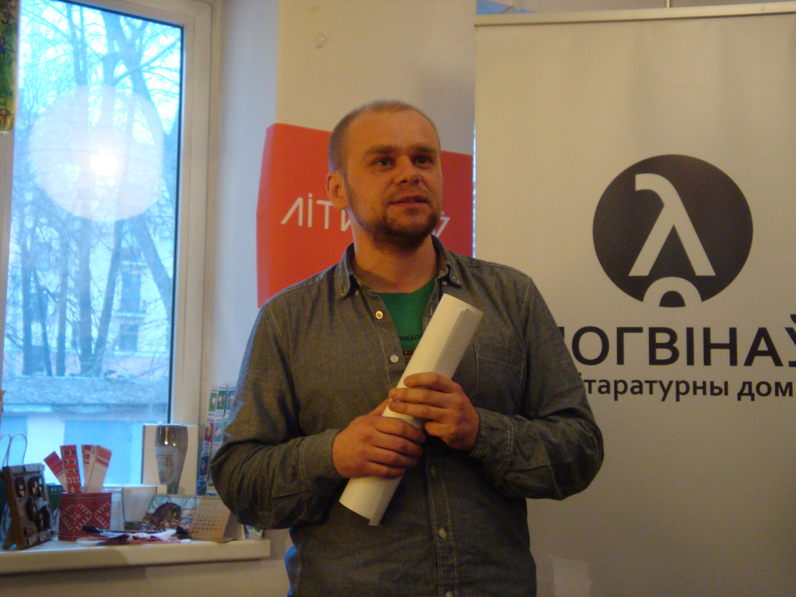 Pavel Kasciukievich (born 1979 AD) -- a belorussian writer -- during the public discussion in the bookshop "Logvinau", Minsk city (Belarus), 2015 AD